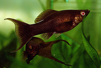 Female (top) and male Black Molly (Poecilia sphenops, Valenciennes, 1846)